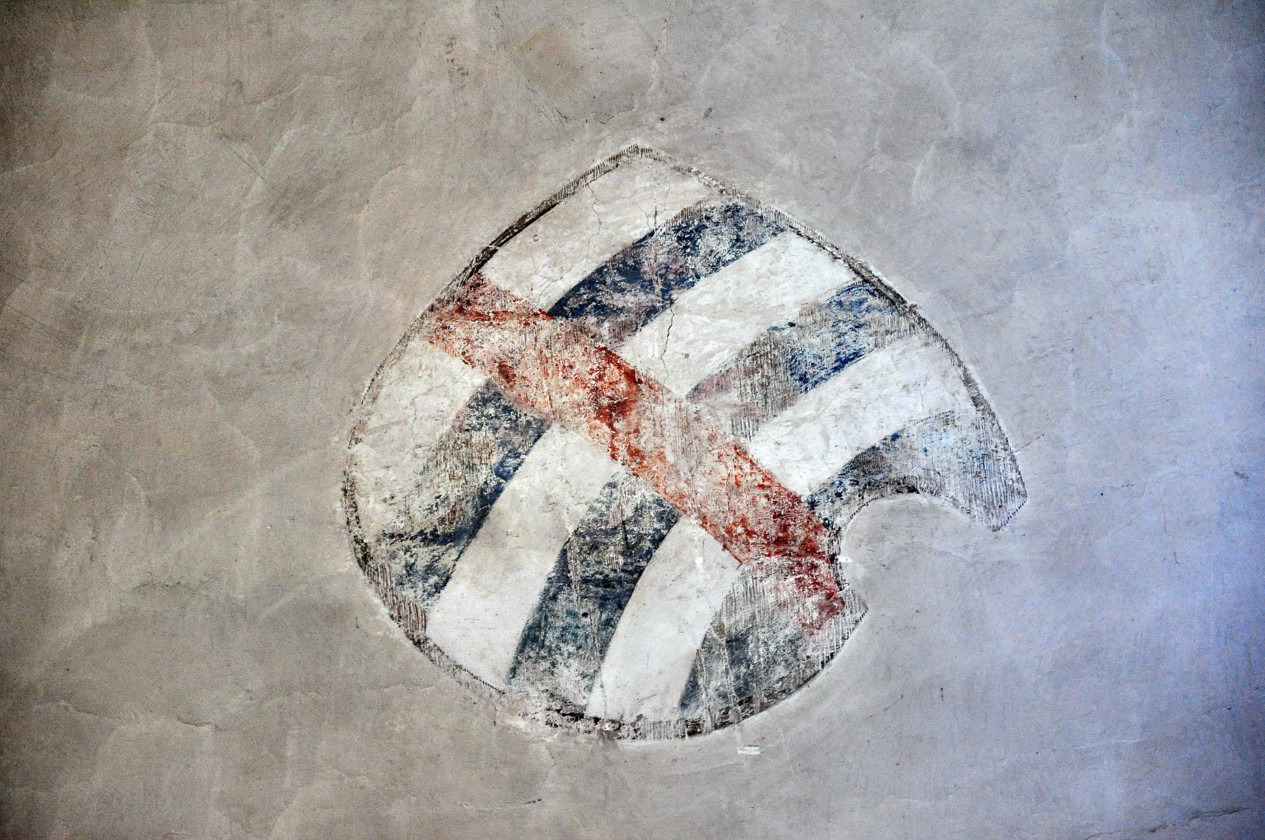 Former Premonstratensian Abbey St. Mary in Rüti (Switzerland), as of today Reformed church.